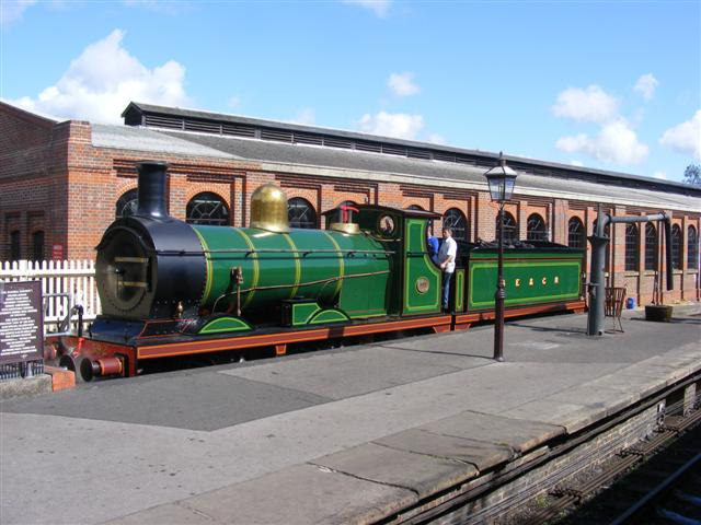 South Eastern and Chatham Railway C class number 592 at the Bluebell Railway. This photo was taken by Christopher Ward at the Bluebell Railway on 12th August 2007